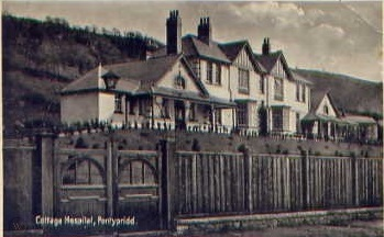 Old postcard showing Pontypridd Cottage Hospital, Wales